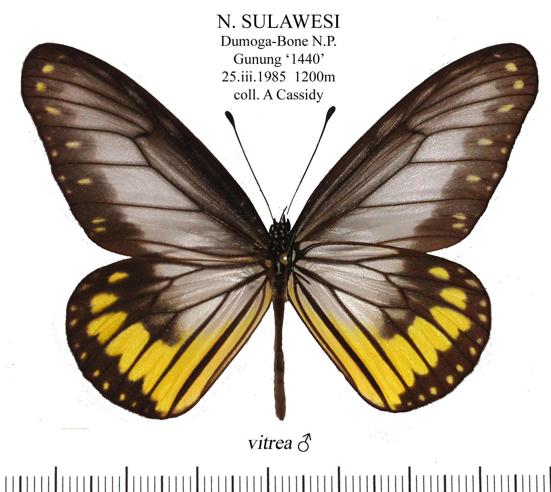 Ideopsis vitrea, male, N. Sulawesi, Project Wallace material, Alan Cassidy photo.